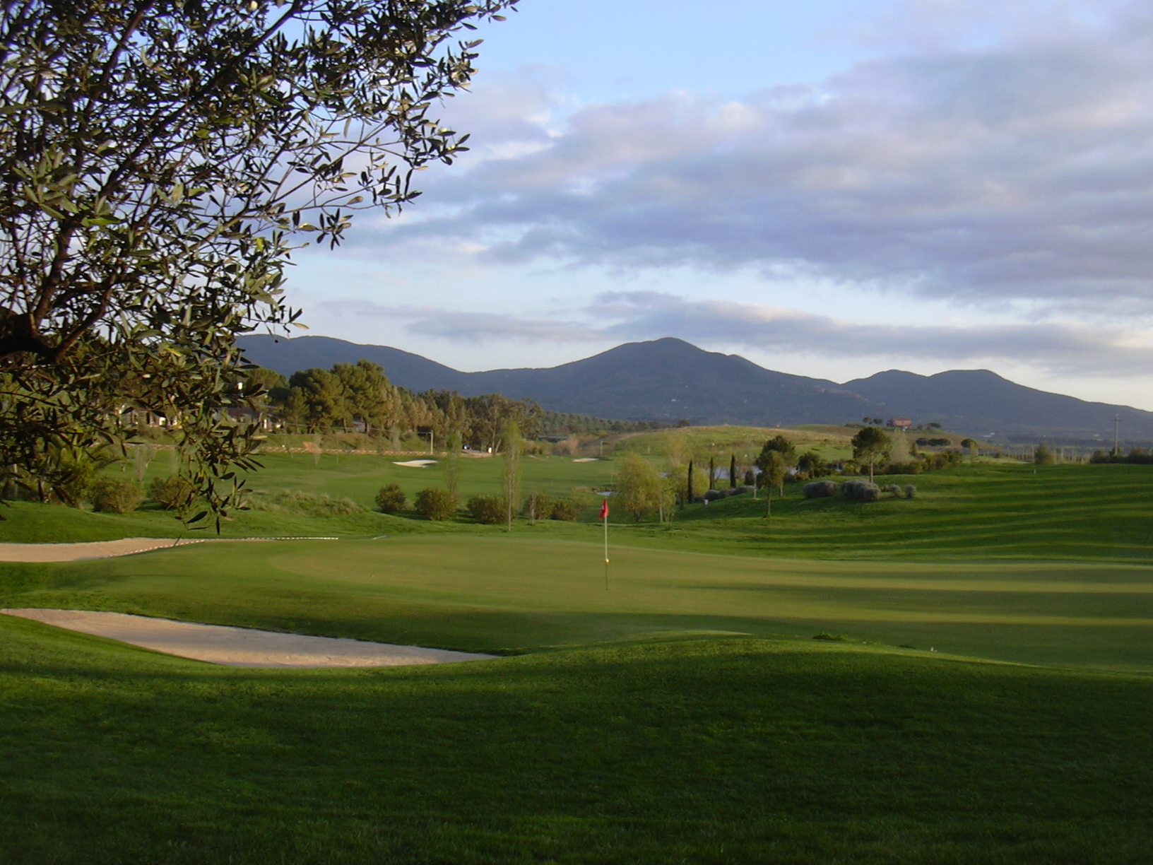 Golf Course Toscana, Hole 5